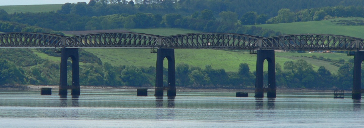 A closeup of the central section of the Tay Bridge, photographed from the waterfront in Dundee east of Discovery Point and the Tay Road Bridge.